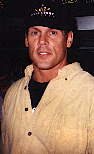 Sting, without his make up of the time, after a taping of WCW Monday Nitro from Minneapolis, Minnesota in 1998.